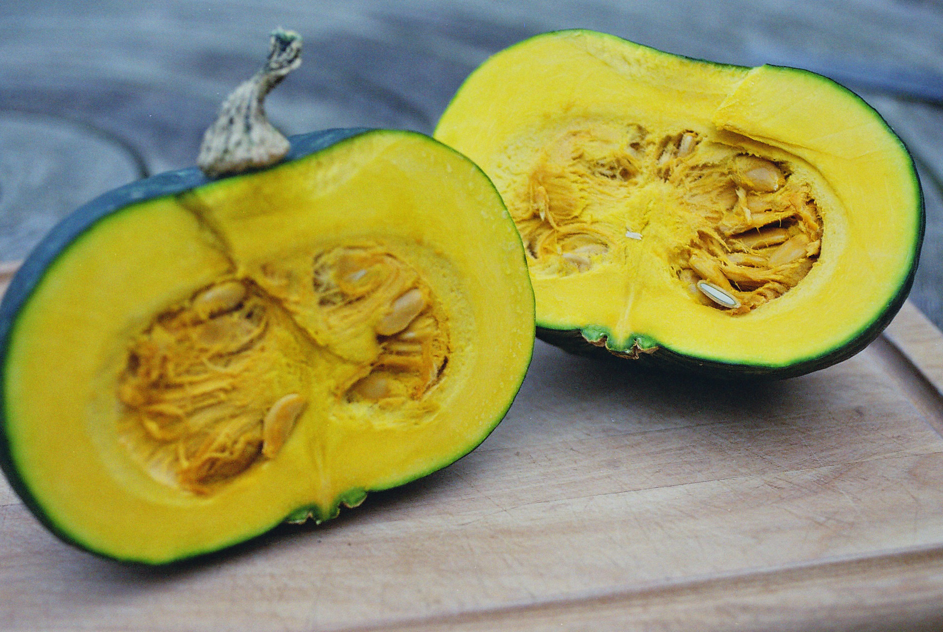 A kabocha, a pumpkin group of the species Cucurbita maxima, cut in half